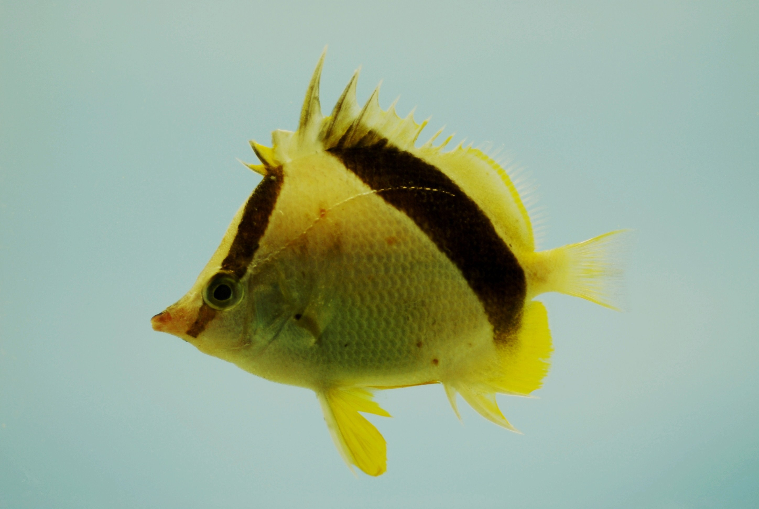 Bank butterflyfish (Prognathodes aya). Gulf of Mexico. Credit: SEFSC Pascagoula Laboratory; Collection of Brandi Noble, NOAA/NMFS/SEFSC.